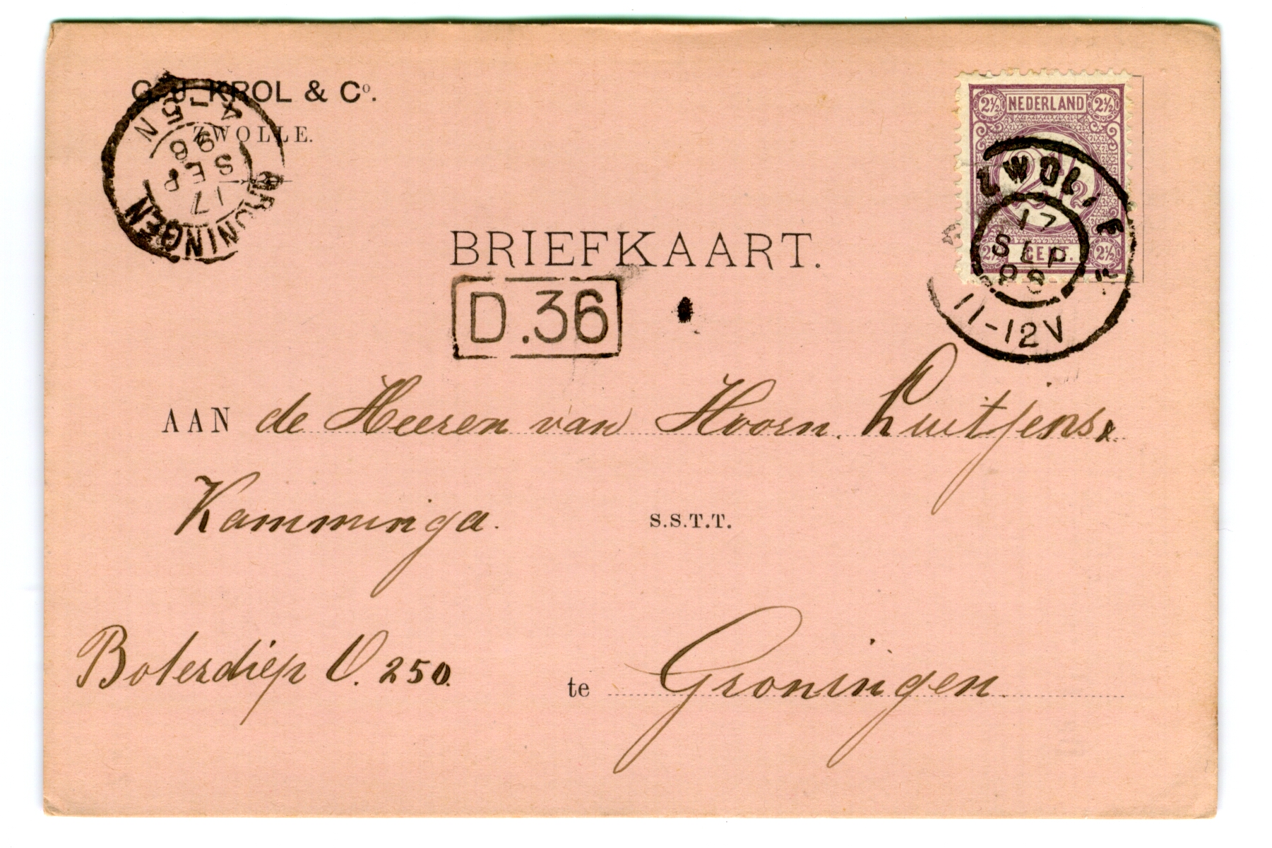 Dutch postcard, cancelled Zwolle 1896-09-17